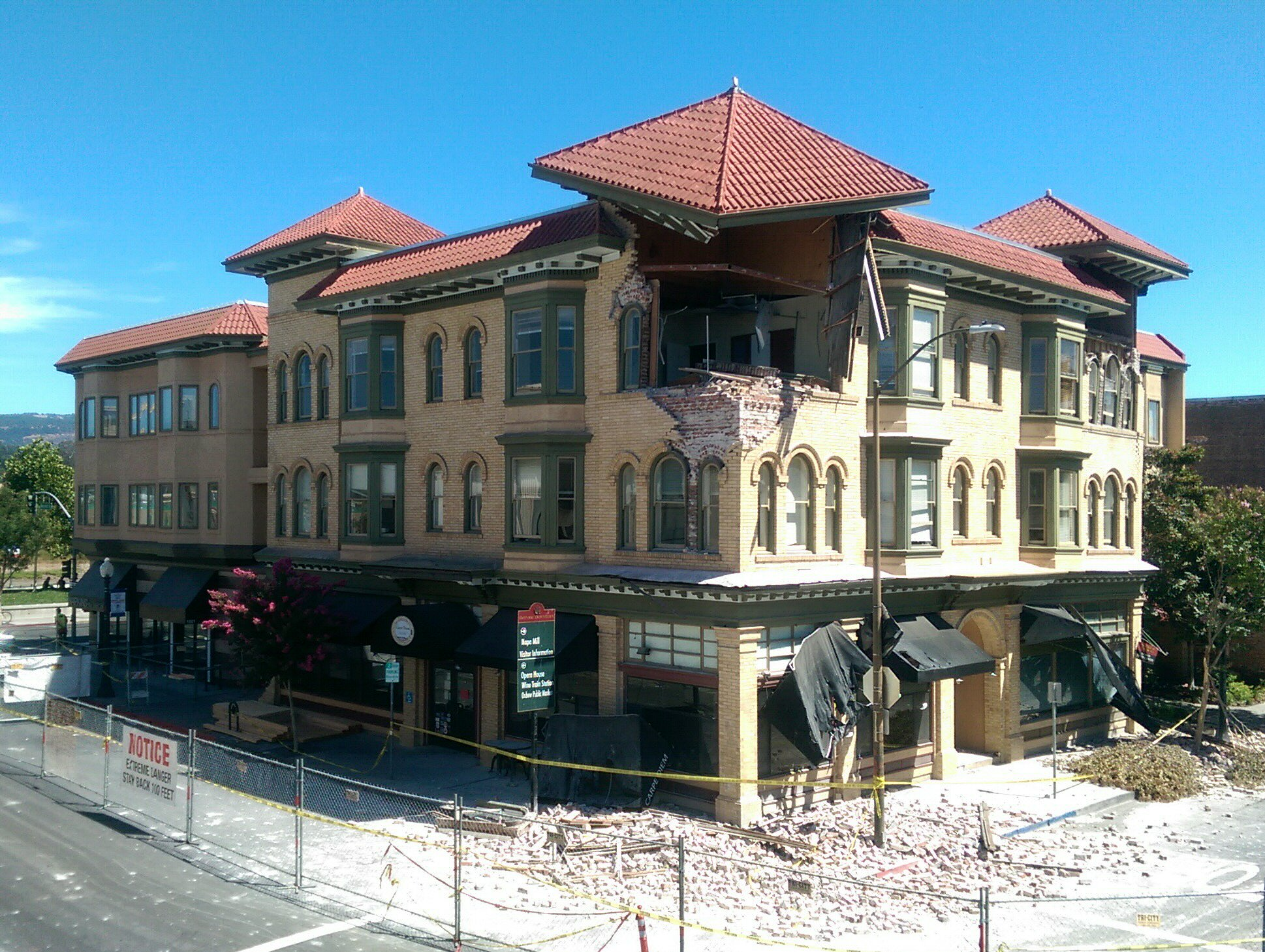 Earthquake damage to the Alexandia Square building in Napa, California. Photo by Jim Heaphy.